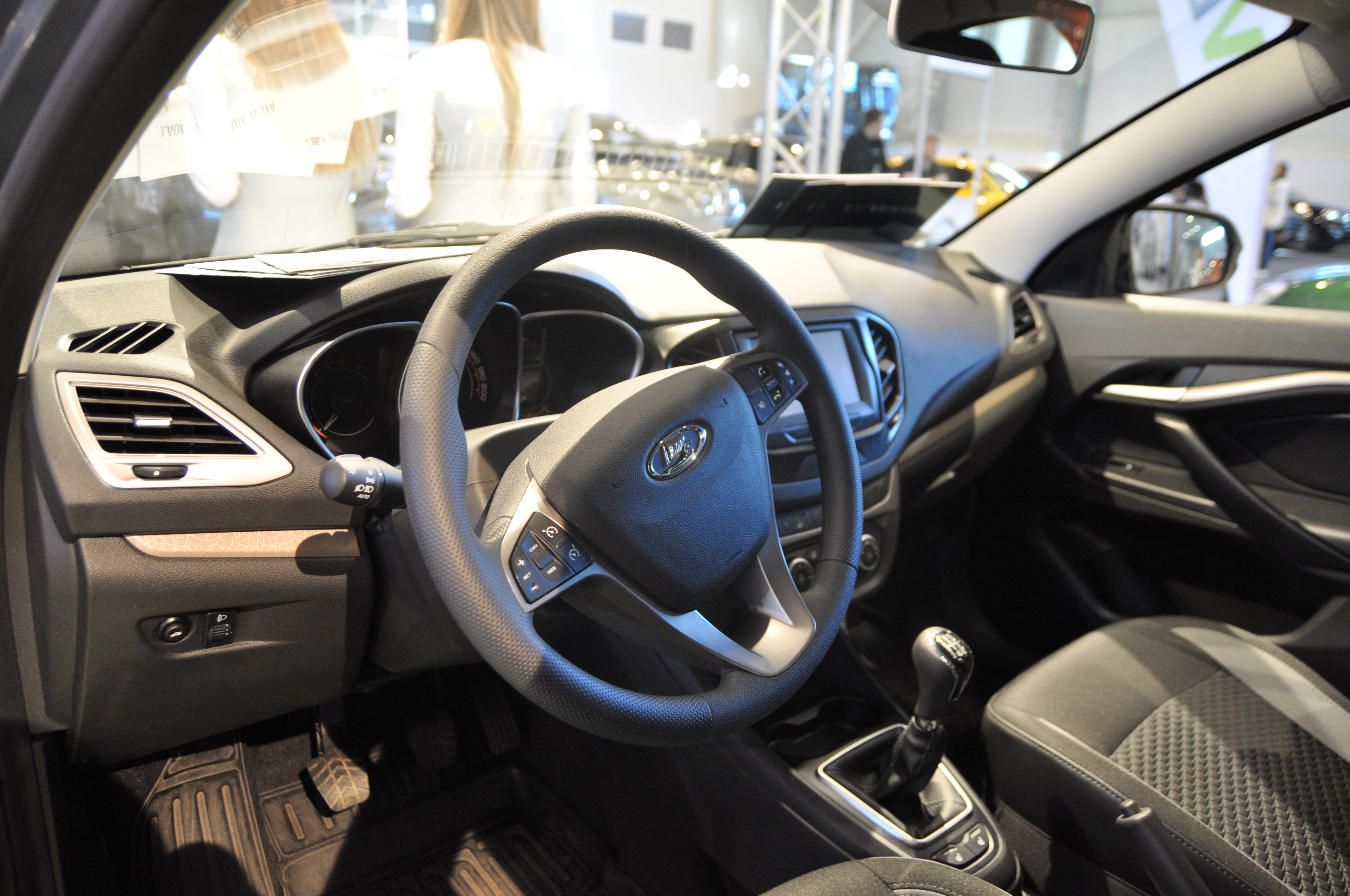 Budapest, Hungexpo, Automobil and Tuning Show 2017